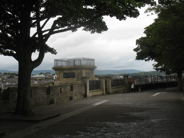 The Walker Memorial Plinth at the Royal Bastion on the Grand Parade The Rev George Walker a soldier and Anglican priest was the joint governor of Londonderry with Major Baker, during the siege of 1689, and who in contrast to the cowardly and treacherous Robert Lundy, galvanized the opposition of free minded people to the Tyrant King James II. Walker was to heroically die in the following year at the Battle of the Boyne, whilst tending to the wounds of his injured comrade, the Duke of Schomberg. In 1826, in recognition of and respect for the much loved man, a 27m high memorial column surmounted by a statue of Walker was erected on the Royal Bastion, on the historic city walls. In 1973 the column was destroyed by a 100lb IRA terrorist bomb,an act of cultural vandalism, which was widely recognized as an attempt by the sectarian terrorists to erase an important part of the City's Protestant Culture and Heritage. The shattered remains of the Walker's statue has been restored and placed in the garden of the nearby Memorial Hall of the Apprentice Boys of Derry. The restored statue was again attacked by Irish Republican Vandals in 2010.